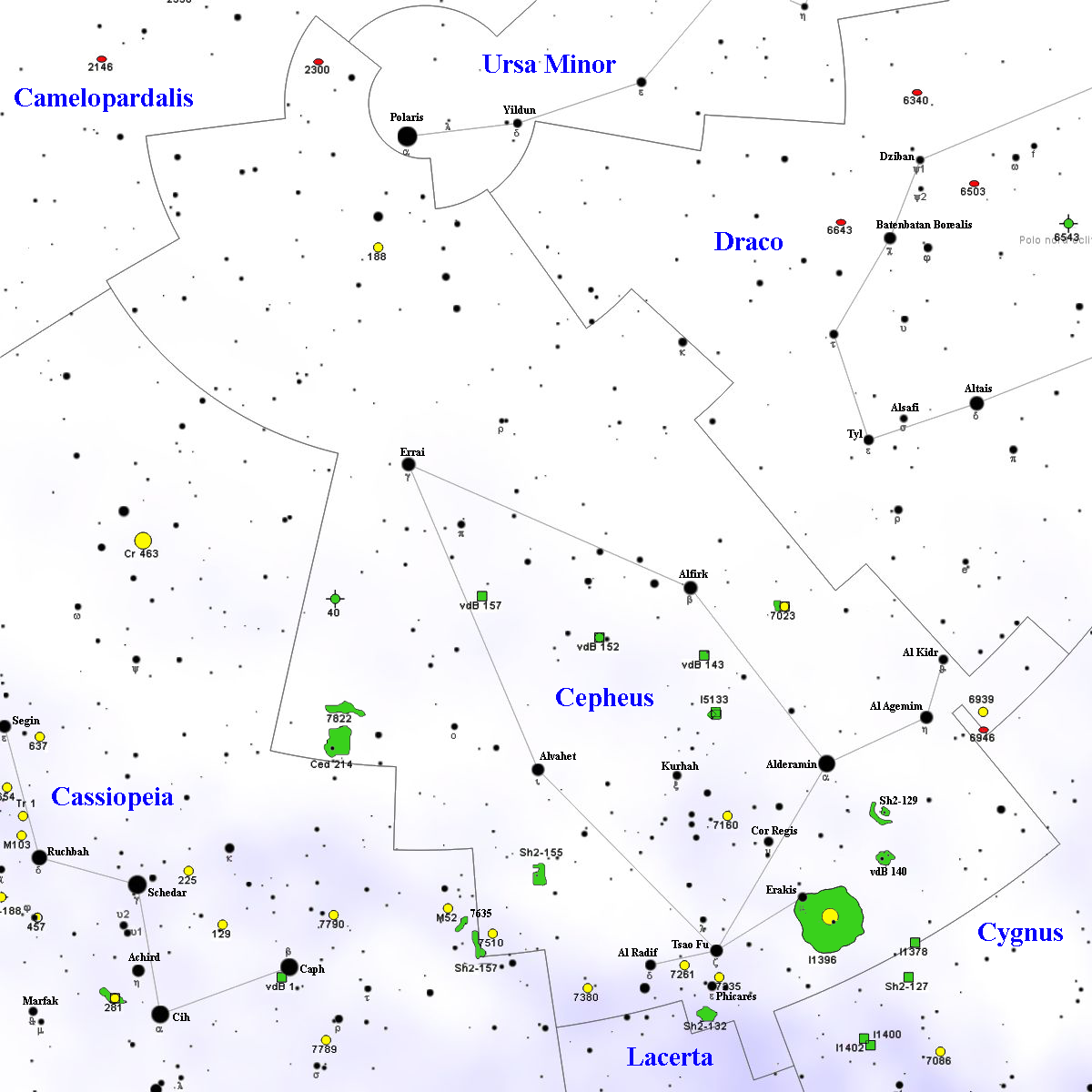 Cepheus constellation map, with DSOs